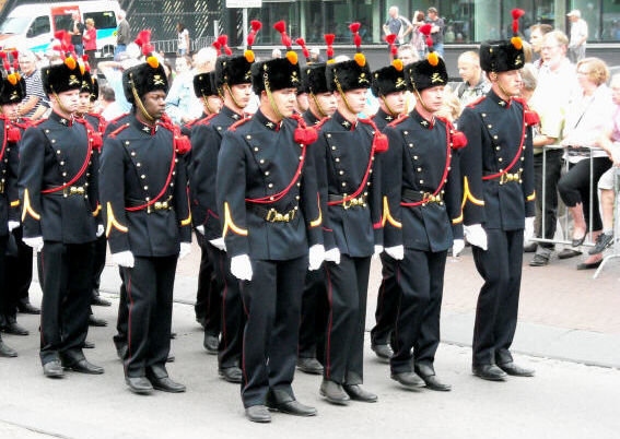 Detatchment of the 14th Field Artillery, veterans' day, The Hague, 27th June 2009.